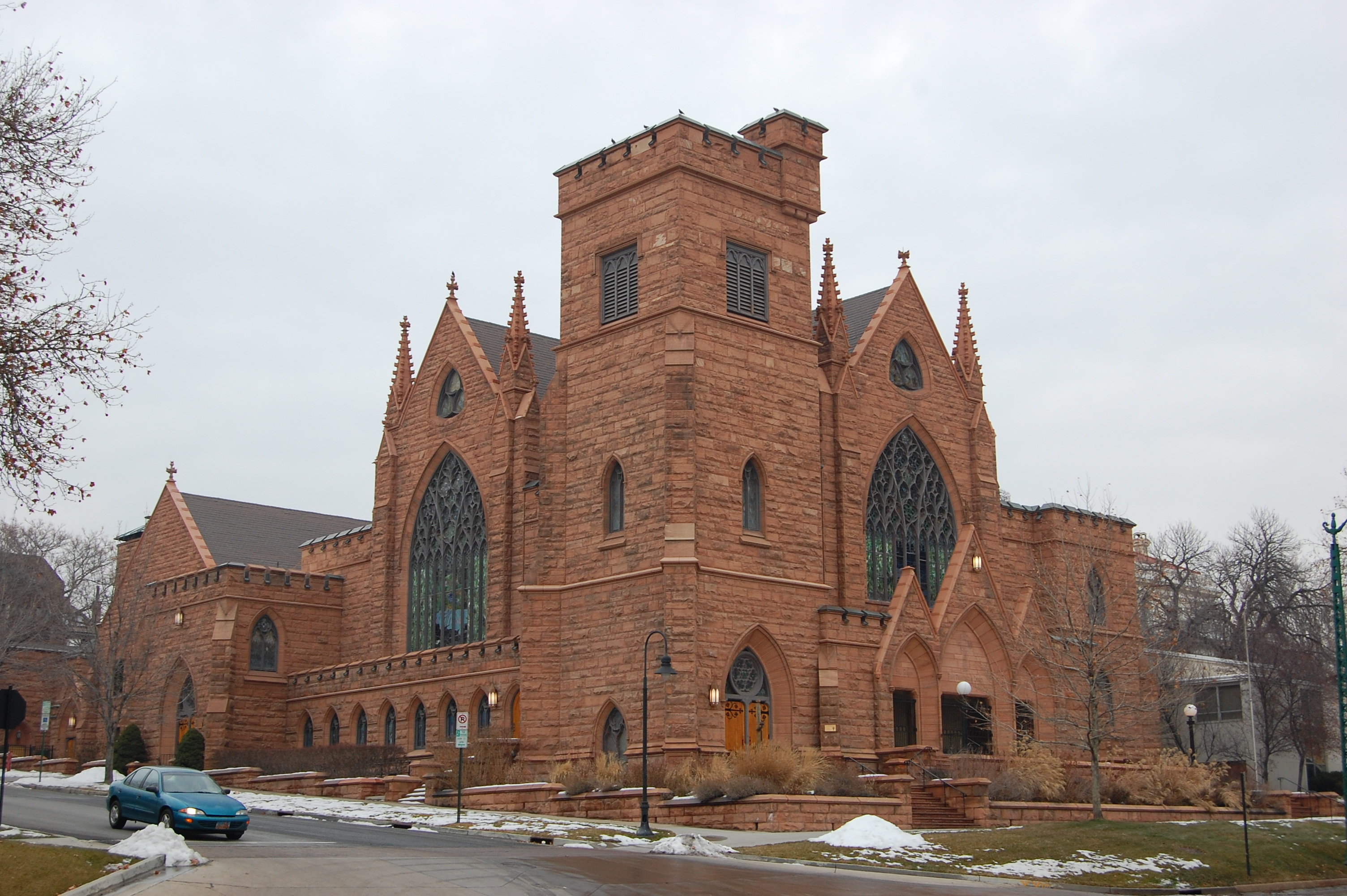 Taken in Canon Road, Salt Lake City, UT, United States